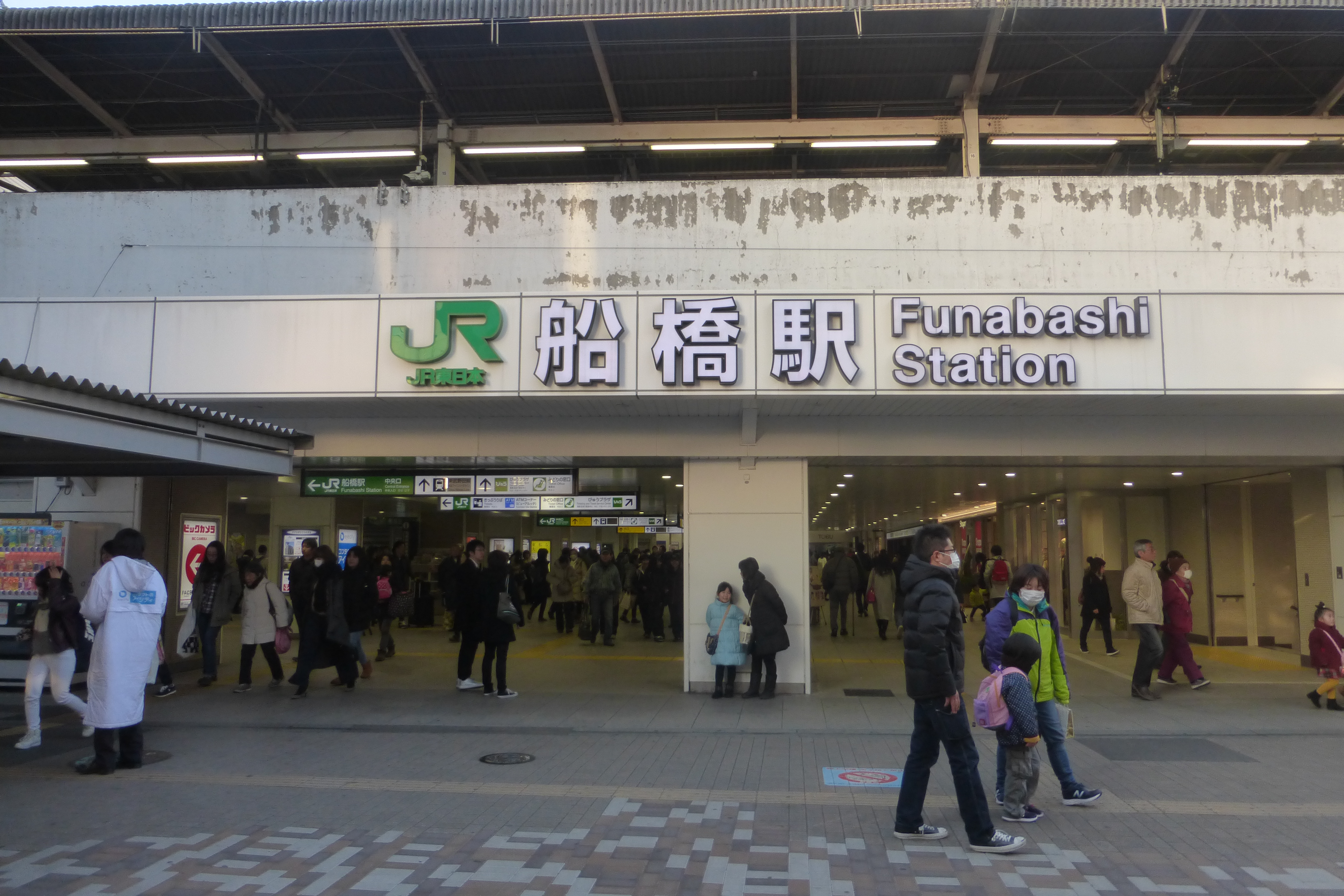 船橋駅 南口 (JR Funabashi Station, South Exit)